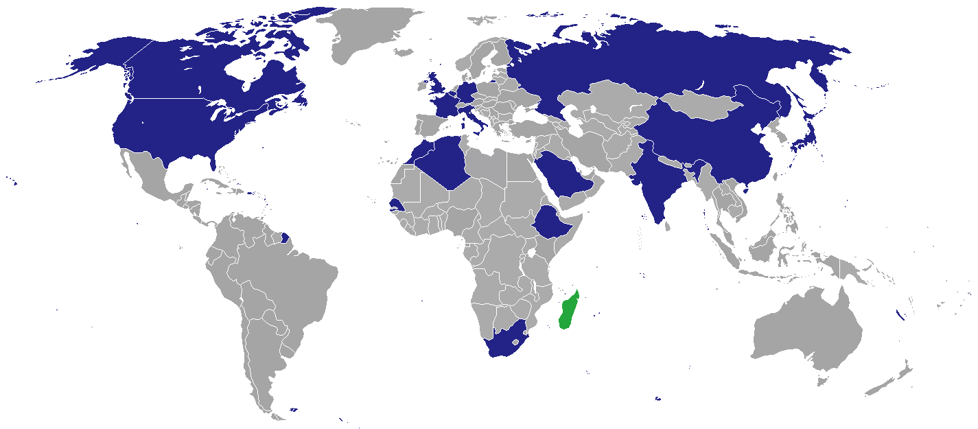 Map of countries with Malgasy embassies Madagascar Embassy